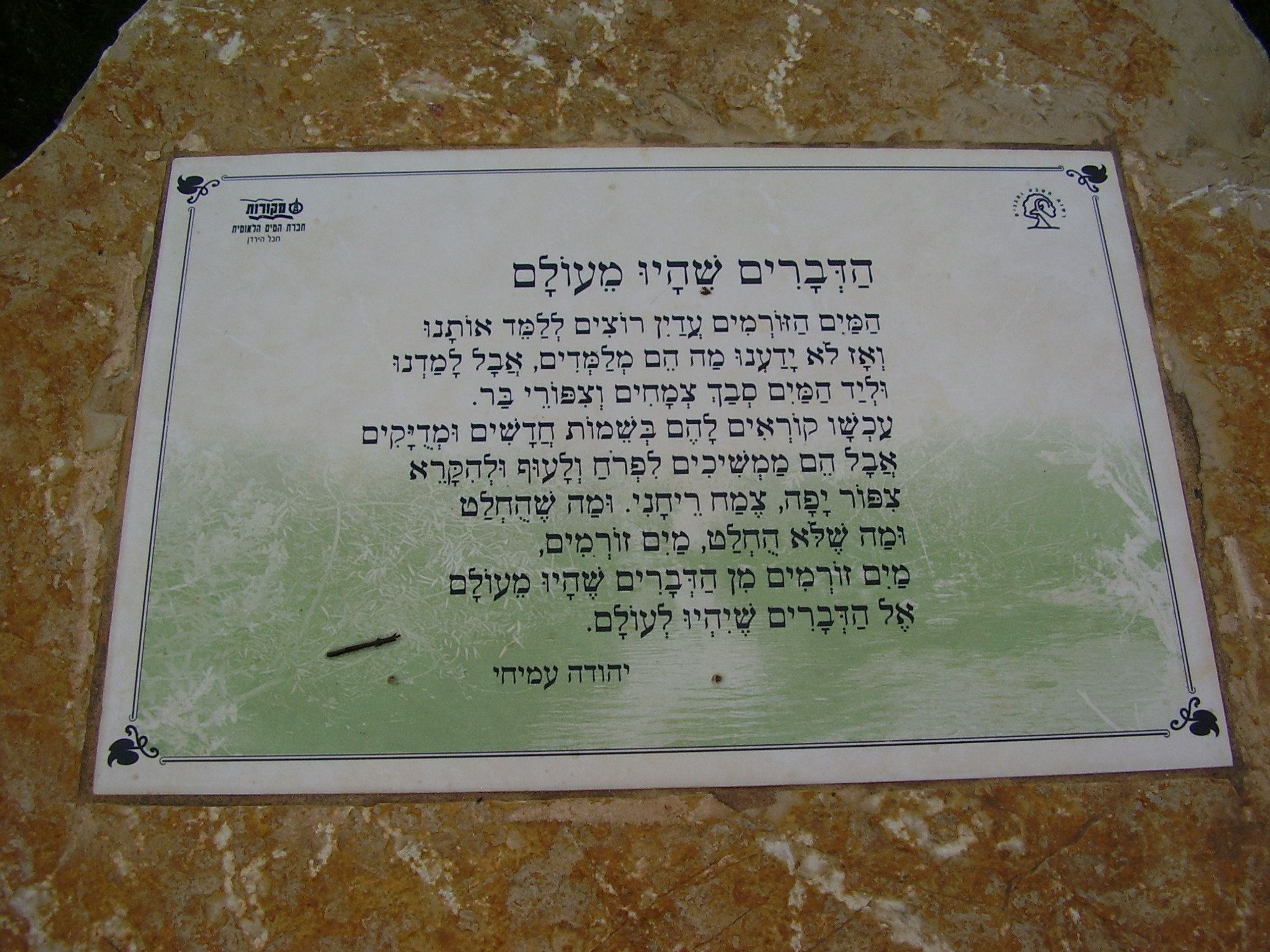 chara lookoot in galilee